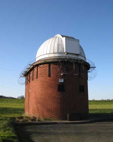 Image of the University of Birmingham Observatory in the daytime, from outside.